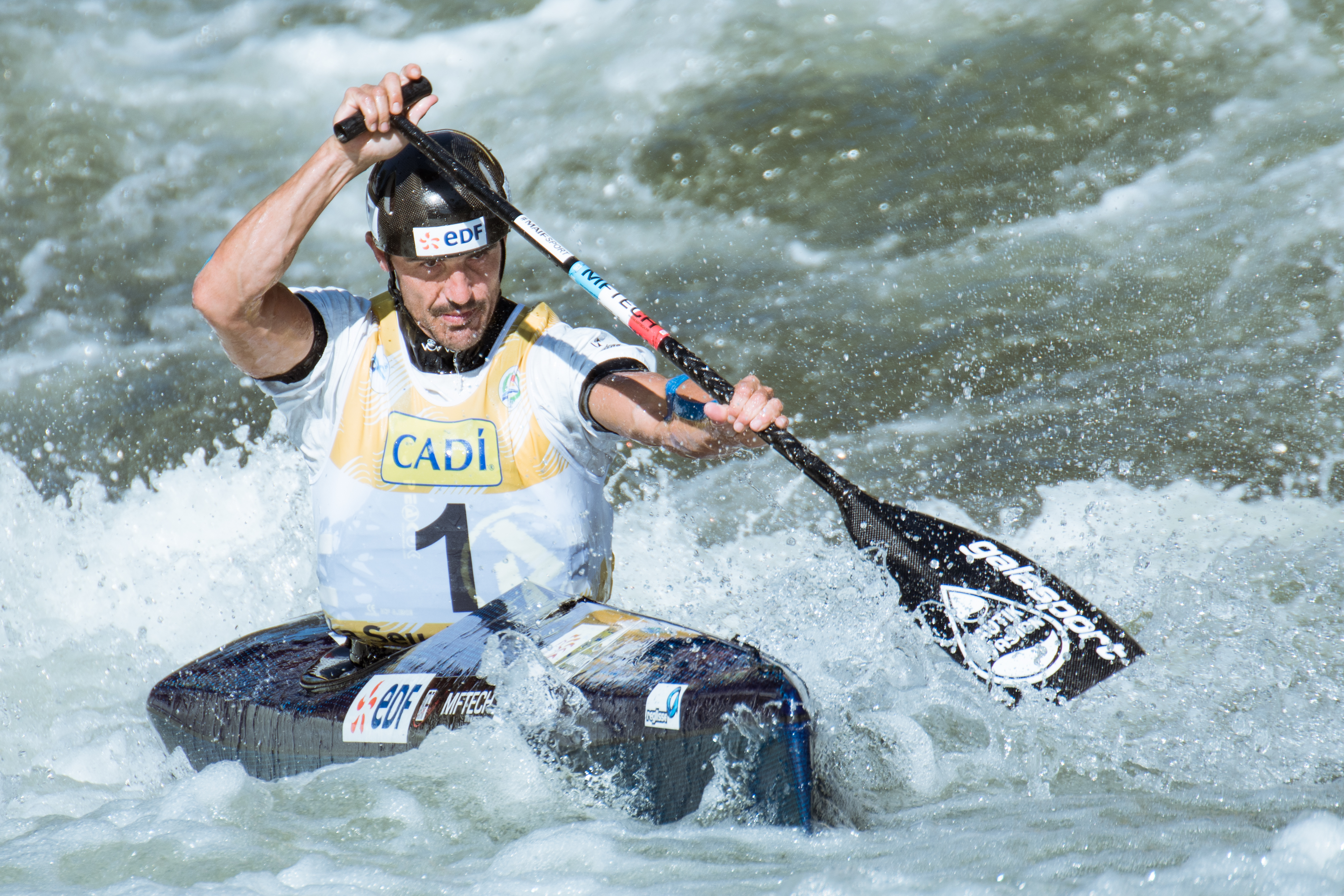 Stéphane Santamaria and Quentin Dazeur during the 2019 Canoe Wildwater World Championships in La Seu d'Urgell, Spain.